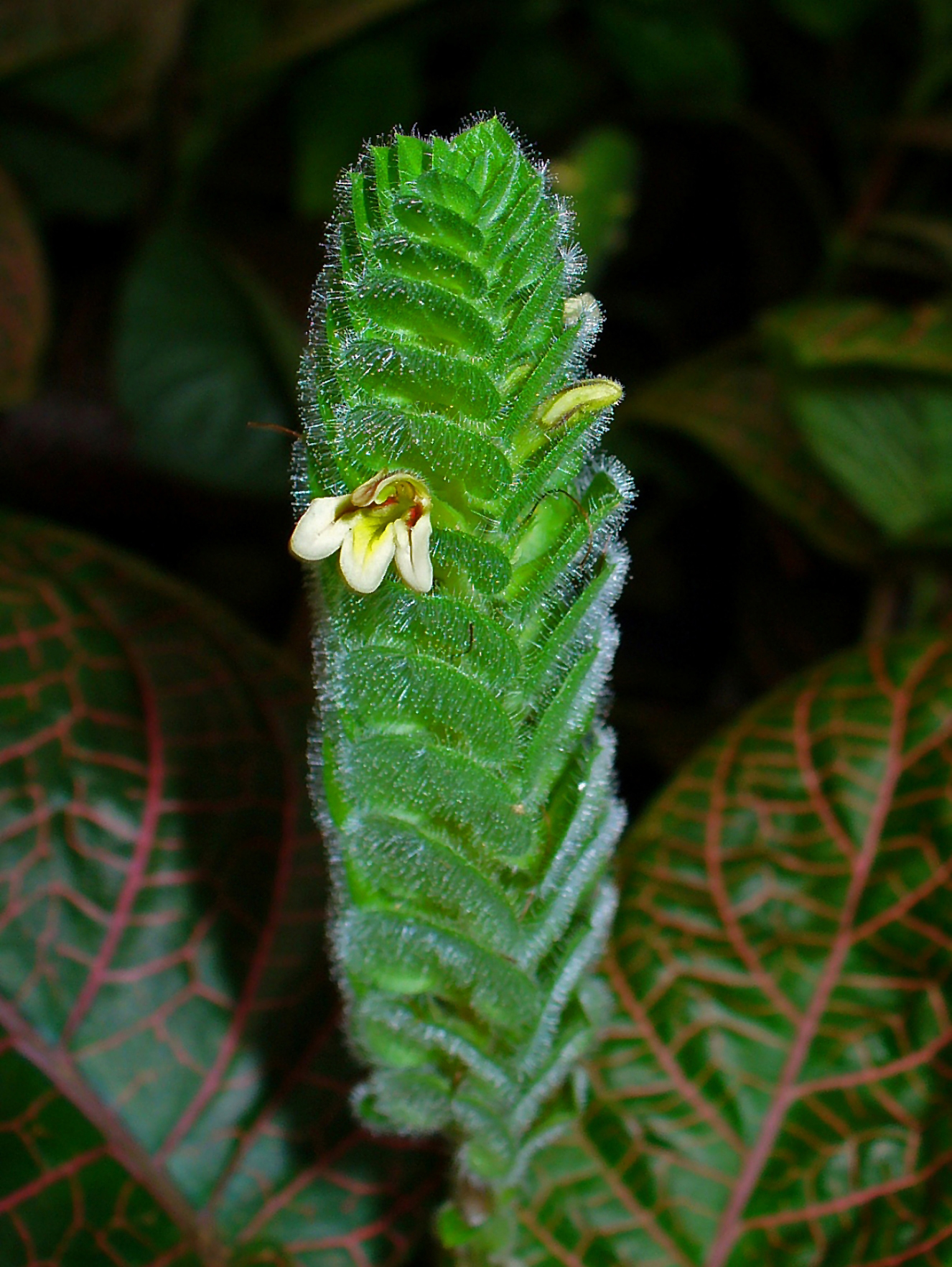 Fittonia albivenis, Acanthaceae, Nerve Plant, Mosaic Plant, inflorescence; Botanical Garden KIT, Karlsruhe, Germany.